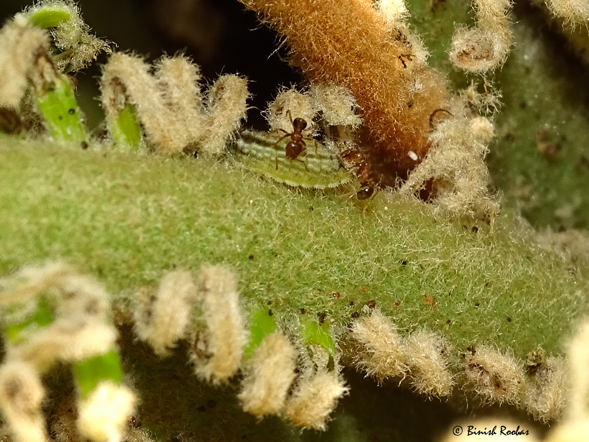 Cycad Caterpillar tending by Ants